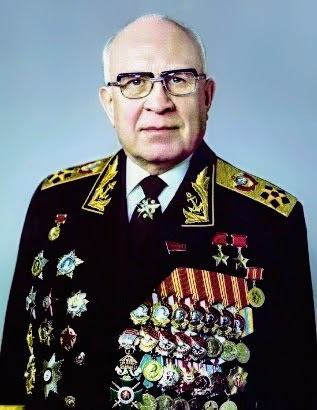 Soviet admiral Sergey Gorshkov, commander-in-chief of the Soviet Navy from 1956 to 1985